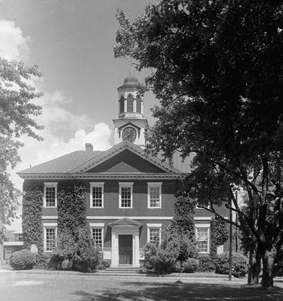 Chowan County Courthouse, East King Street, Edenton (Chowan County, North Carolina) (cropped)